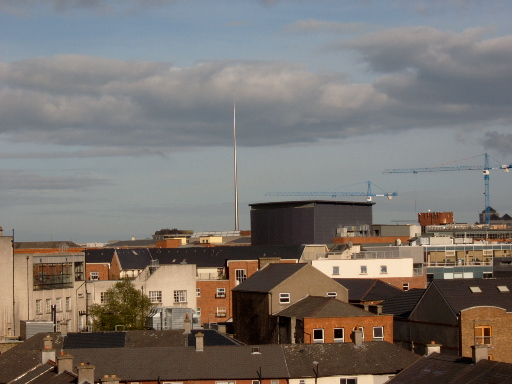 image of the new Spire of Dublin showing height. No copyright - image taken by me